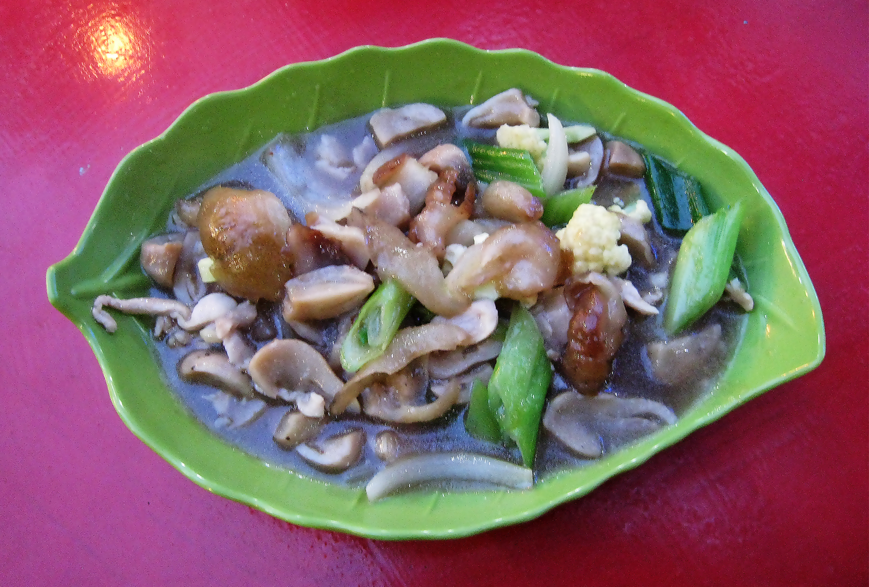 Haisom Cah Jamur or Teripang Cah Jamur, Indonesian Chinese stir fried sea cucumber with mushroom dish. Served in Chinese Indonesian restaurant in Grogol, West Jakarta, Indonesia.